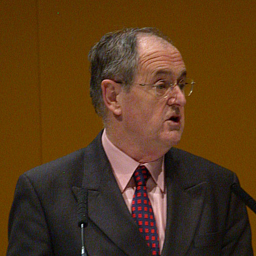 Alan Beith MP addressing a Liberal Democrat conference in the ACC, Liverpool